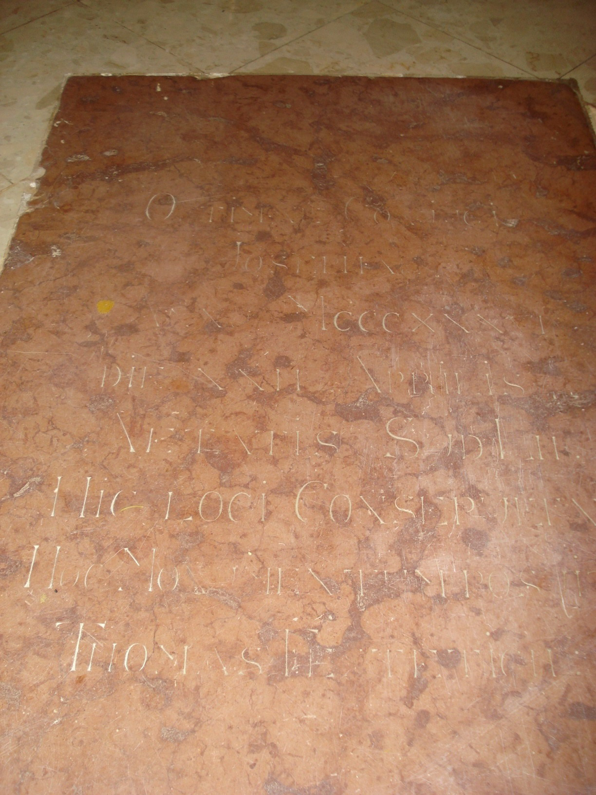 Festetich epitaph from 1336 in the parish church in Gradina near Virovitica (Croatia)